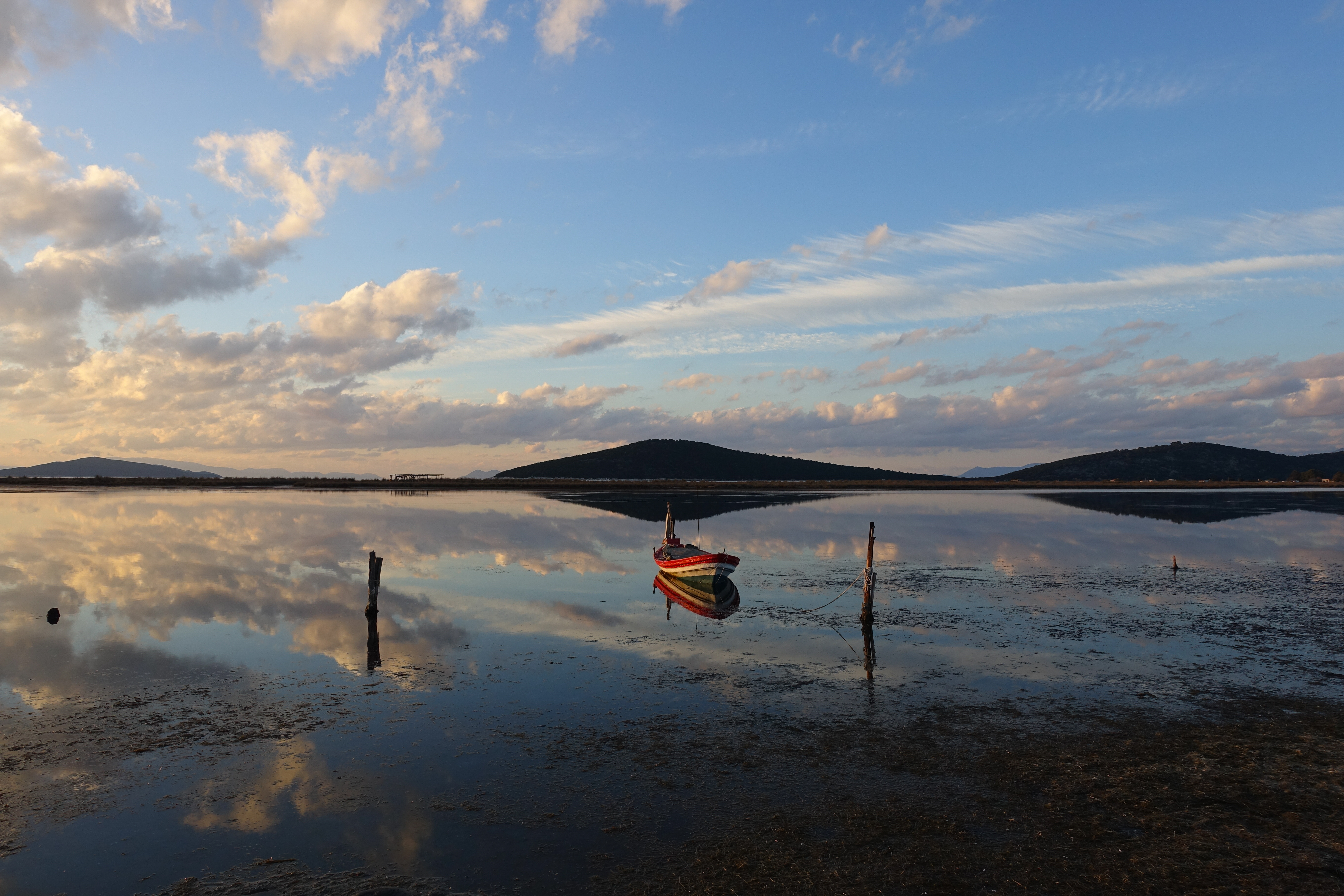 A boat rests unused, during winter, near the Acheloos river delta, a Natura 2000 site. This is a photography of Natura 2000 protected area with ID GR2310015